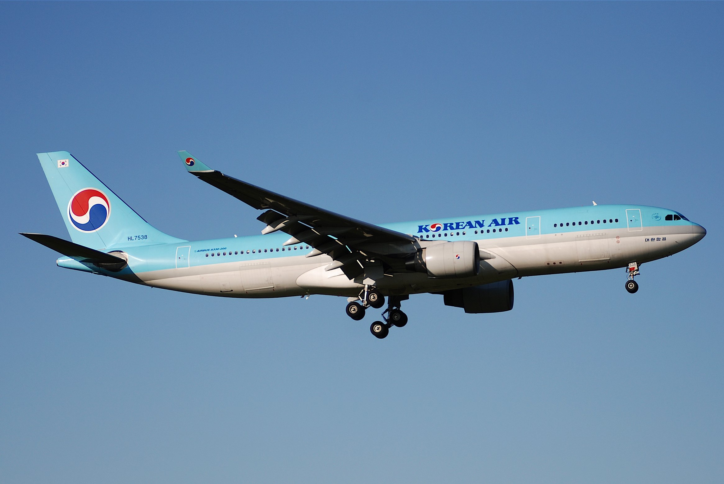 This Airbus A330-223 took its first flight on July 10, 1998 (c/n 222)...